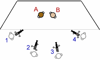 overhead diagram of a set with a couple of actors and four cameras.